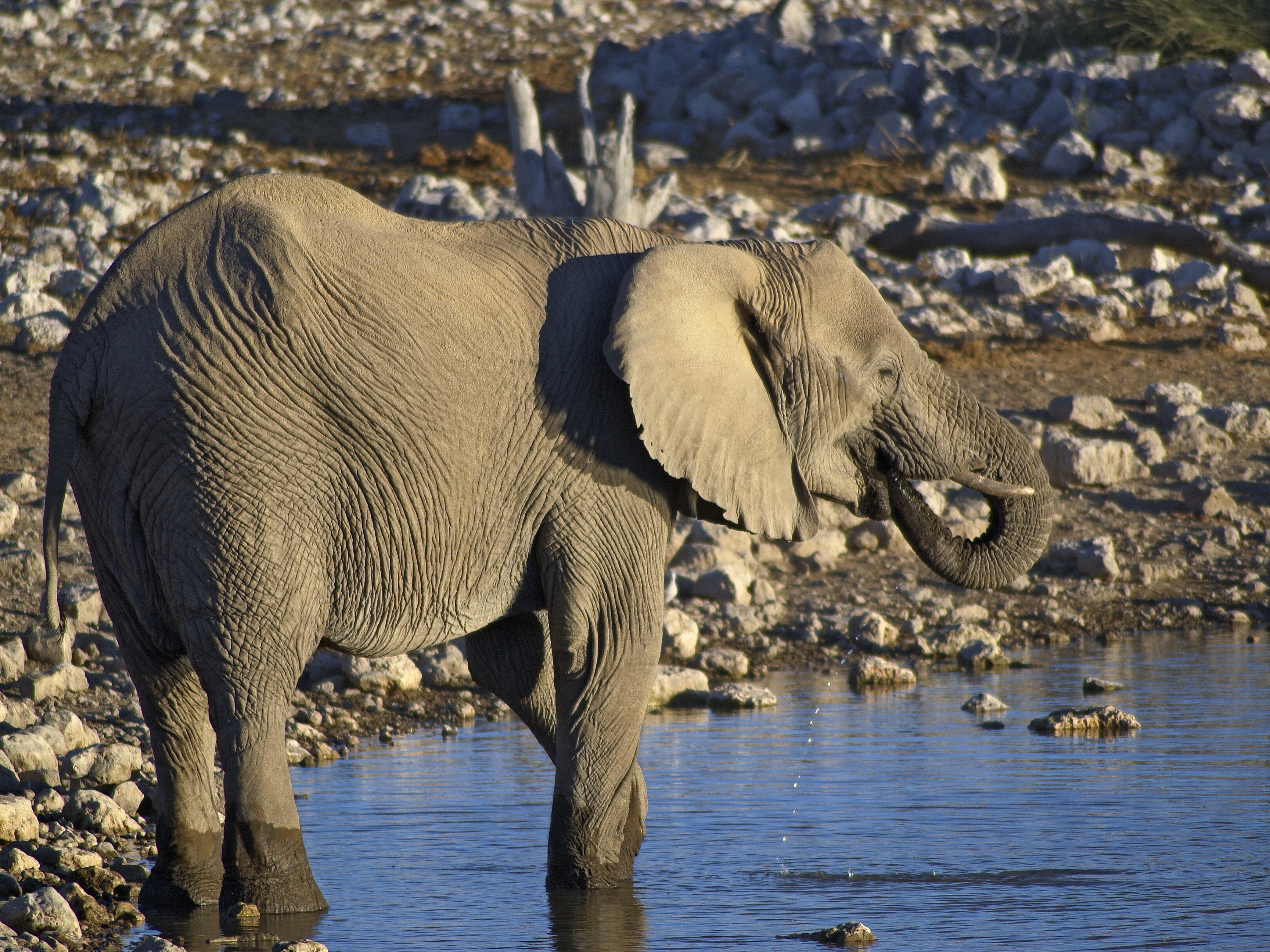 African Elephant drinking at the waterhole of Okaukuejo, Etosha, Namibia.